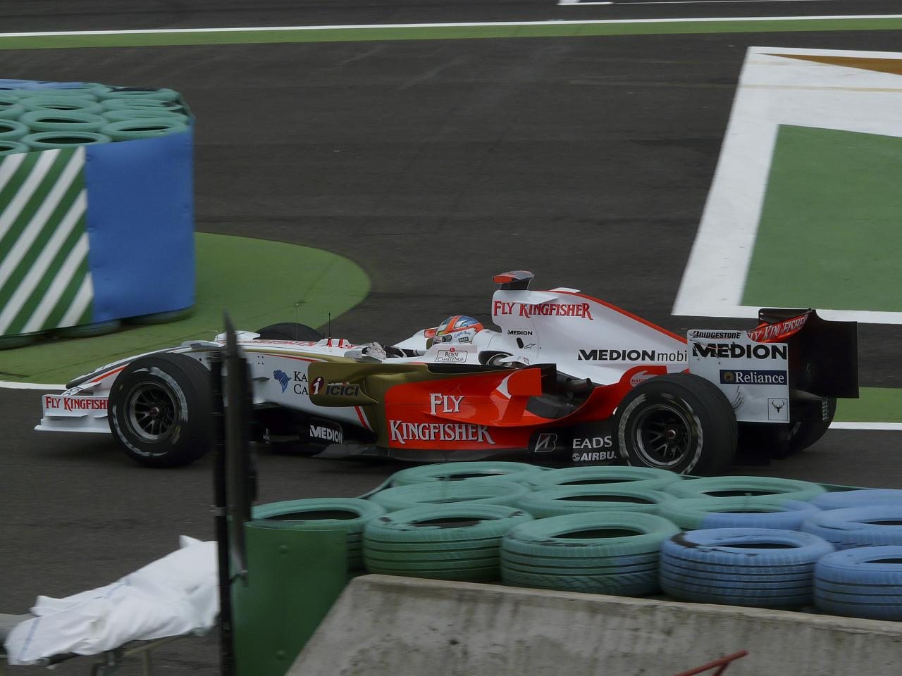 Adrian Sutil at 2008 French Grand Prix